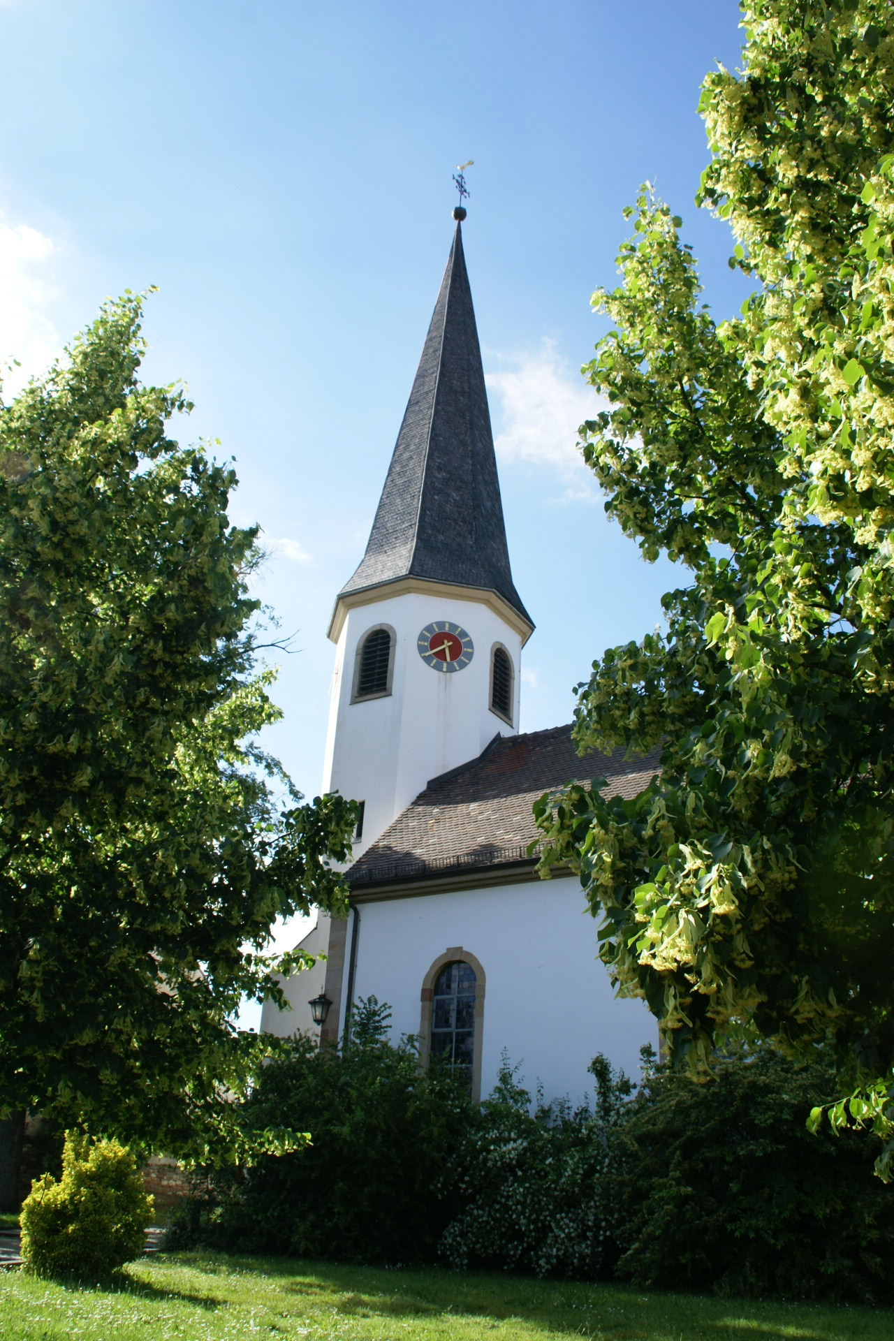 Protestant church Beindersheim (Rhineland-Palatinate) Germany